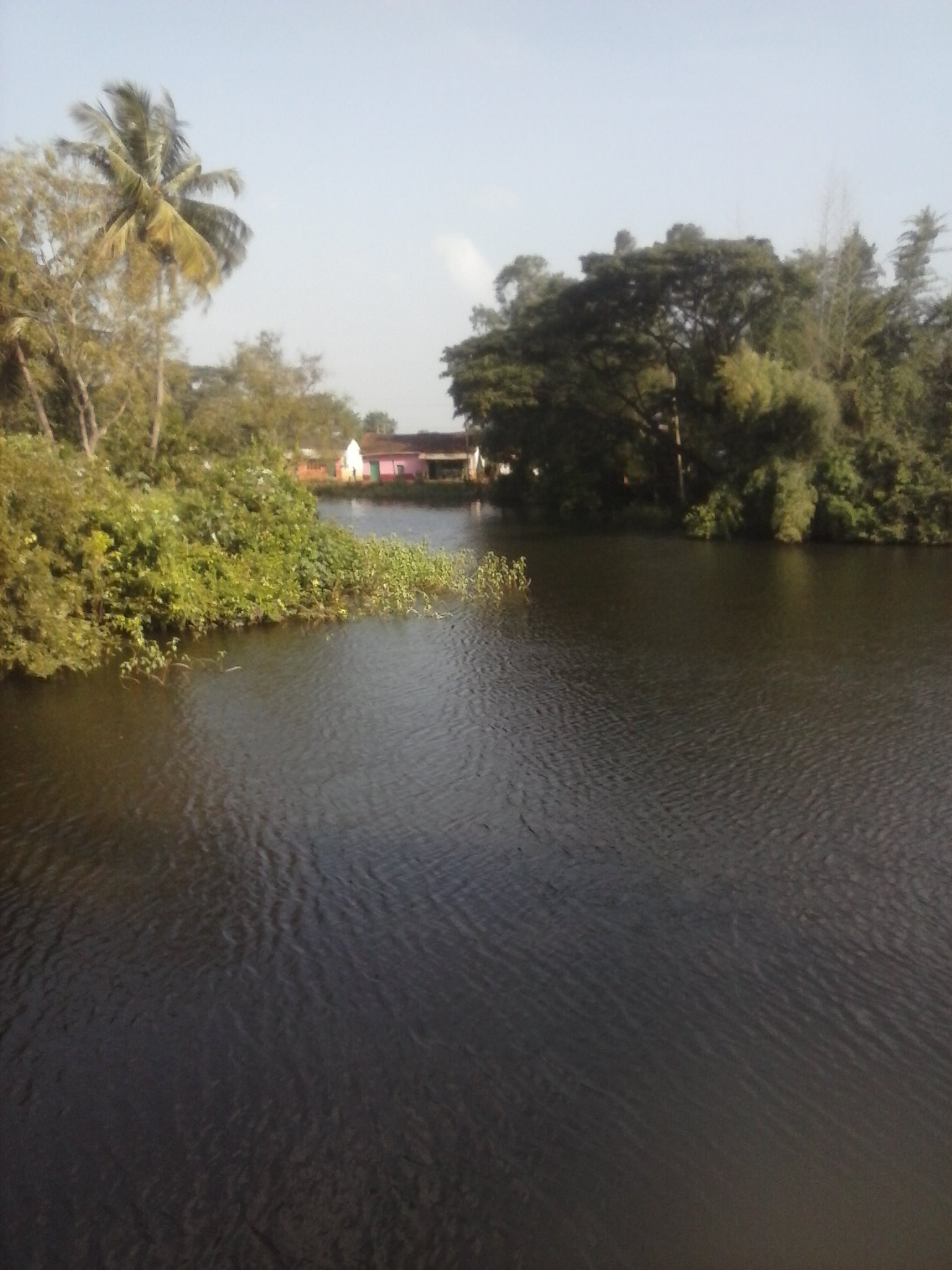 Tavare hond